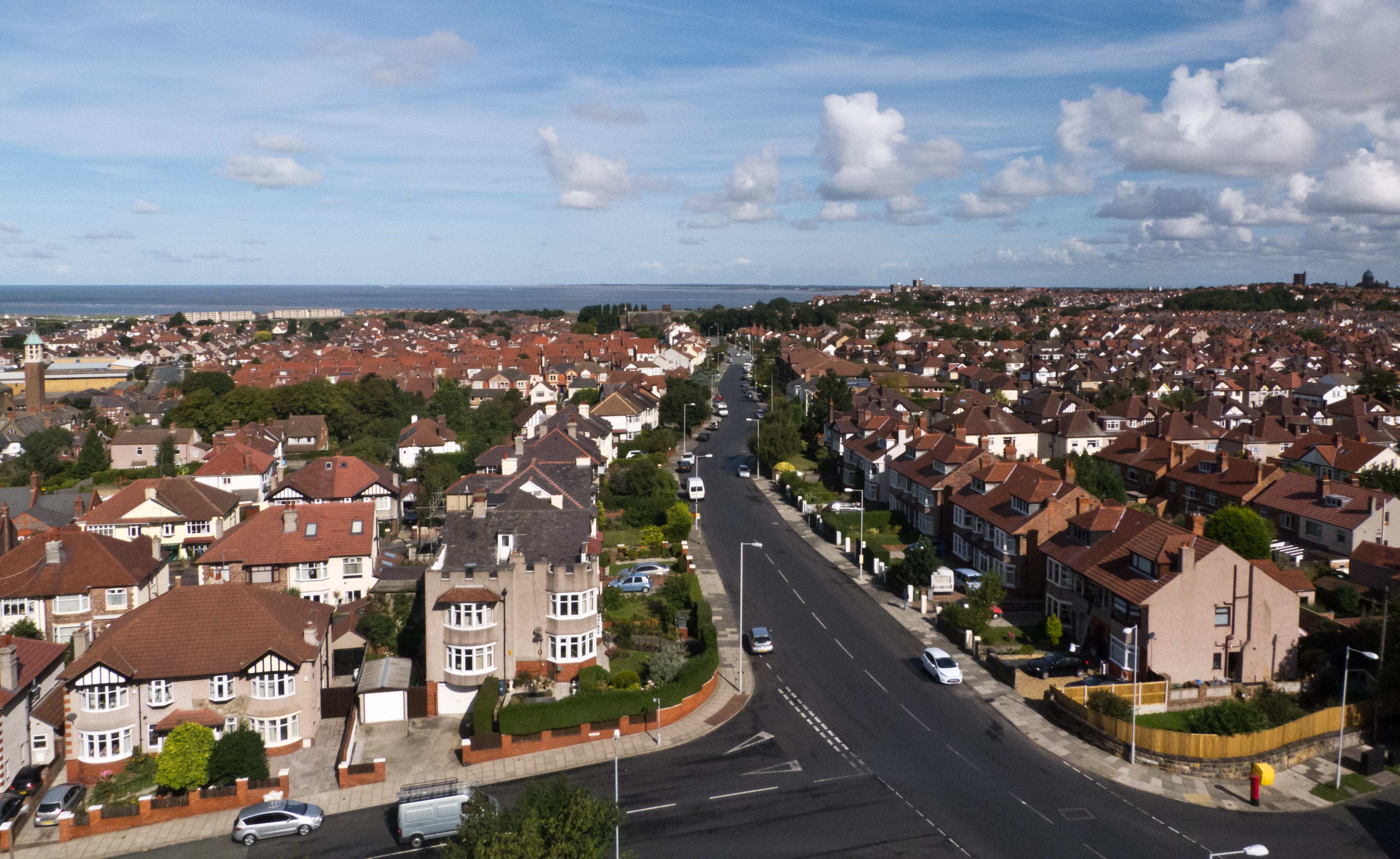 Wallasey, Wirral, Merseyside, England. View from the top of St Hilary's Church Tower looking down Claremount Road. The sea is on the horizon.